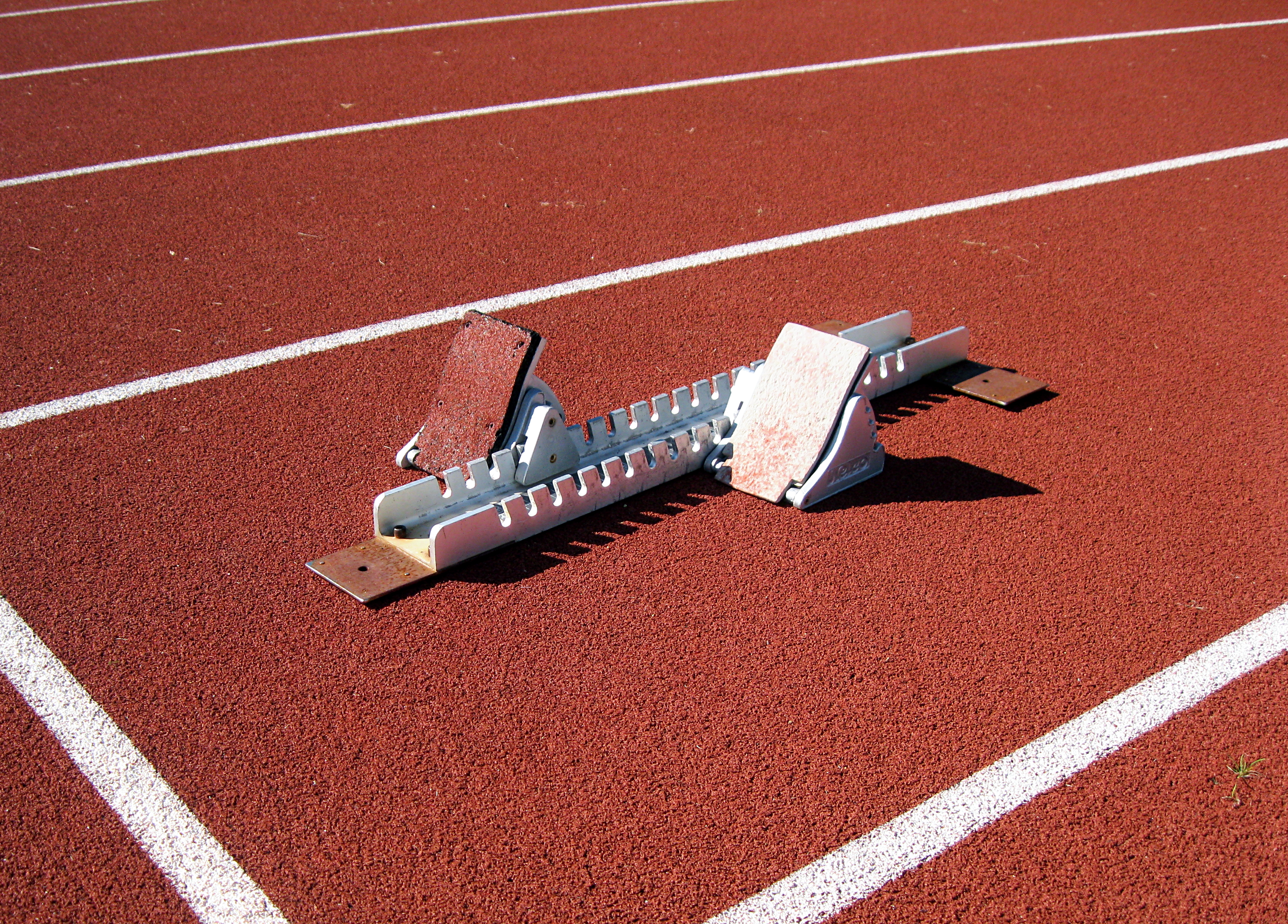 Starting block